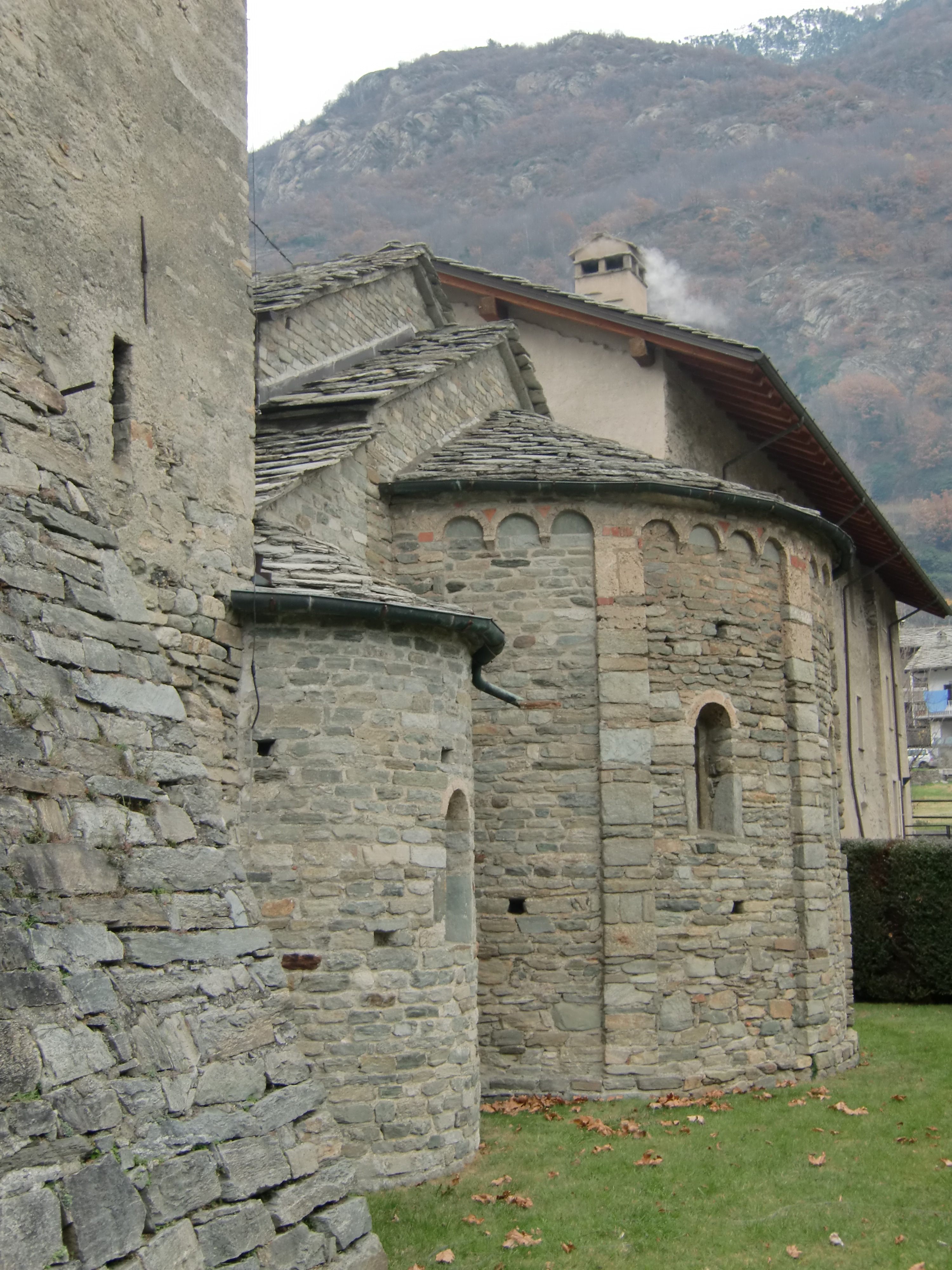 Arnad (Aosta Valley), church of San Martino, Apses, Romanesque architecture, (XI century)